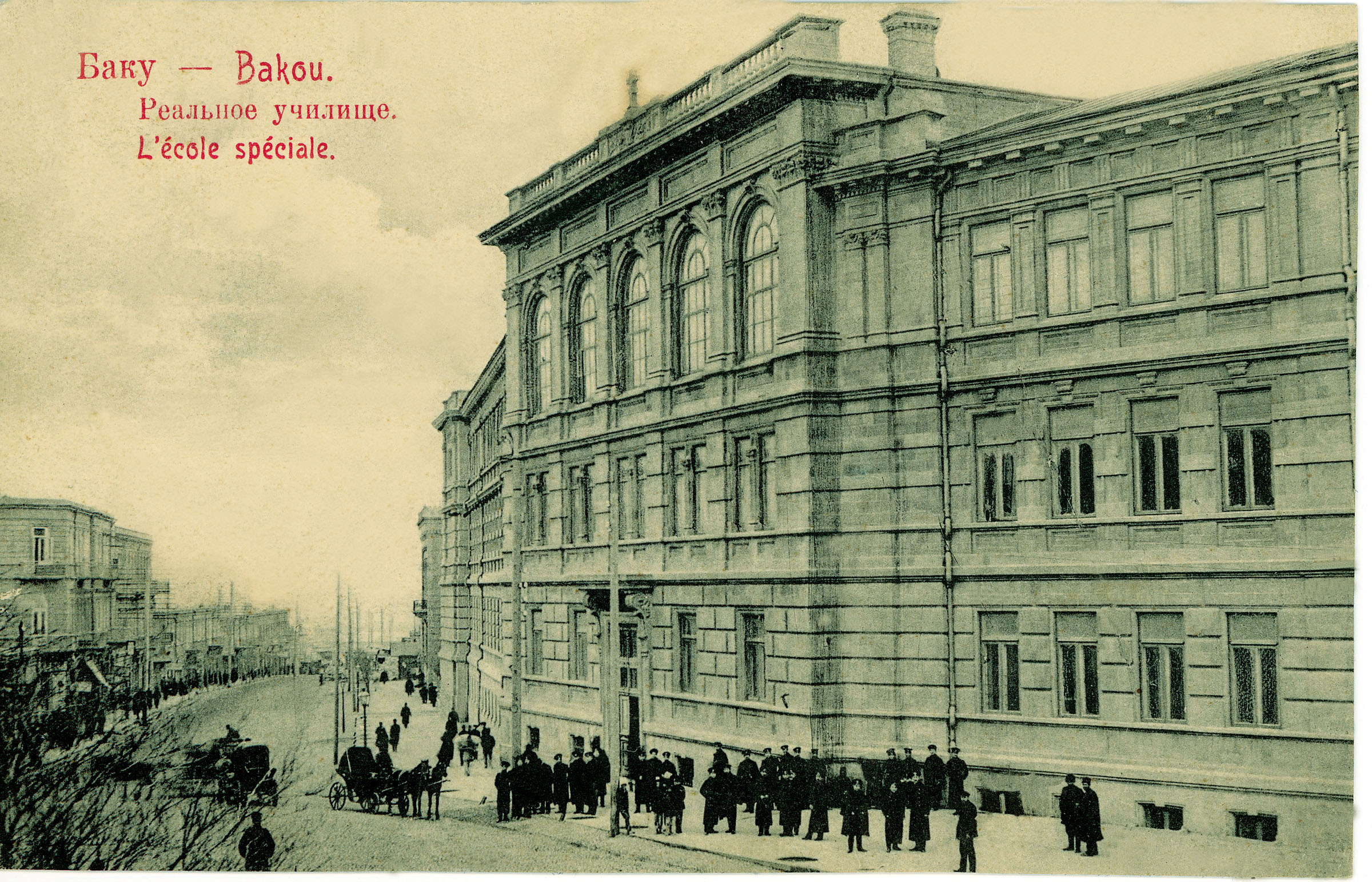 Realni School (today, Economics University), located on Istiglaliyyat (Independence) Street in the center of Baku, Azerbaijan. The School was the setting for the opening classroom scene in the novel "Ali and Nino." Yusif Vazir Chamanzaminli attended Realni beginning in 1906 and graduated in 1909. Inside this same building, another school was located during the early years of 20th century - Men's Gymnasium No. 2. Lev Nussimbaum, who later wrote under the pen name of Essad Bey, attended Men's Gymnasium from 1914 to 1920 (Junior Preparatory to Grade Four). Then Nussimbaum, like many others, fled the Bolsheviks who had taken control of Baku.